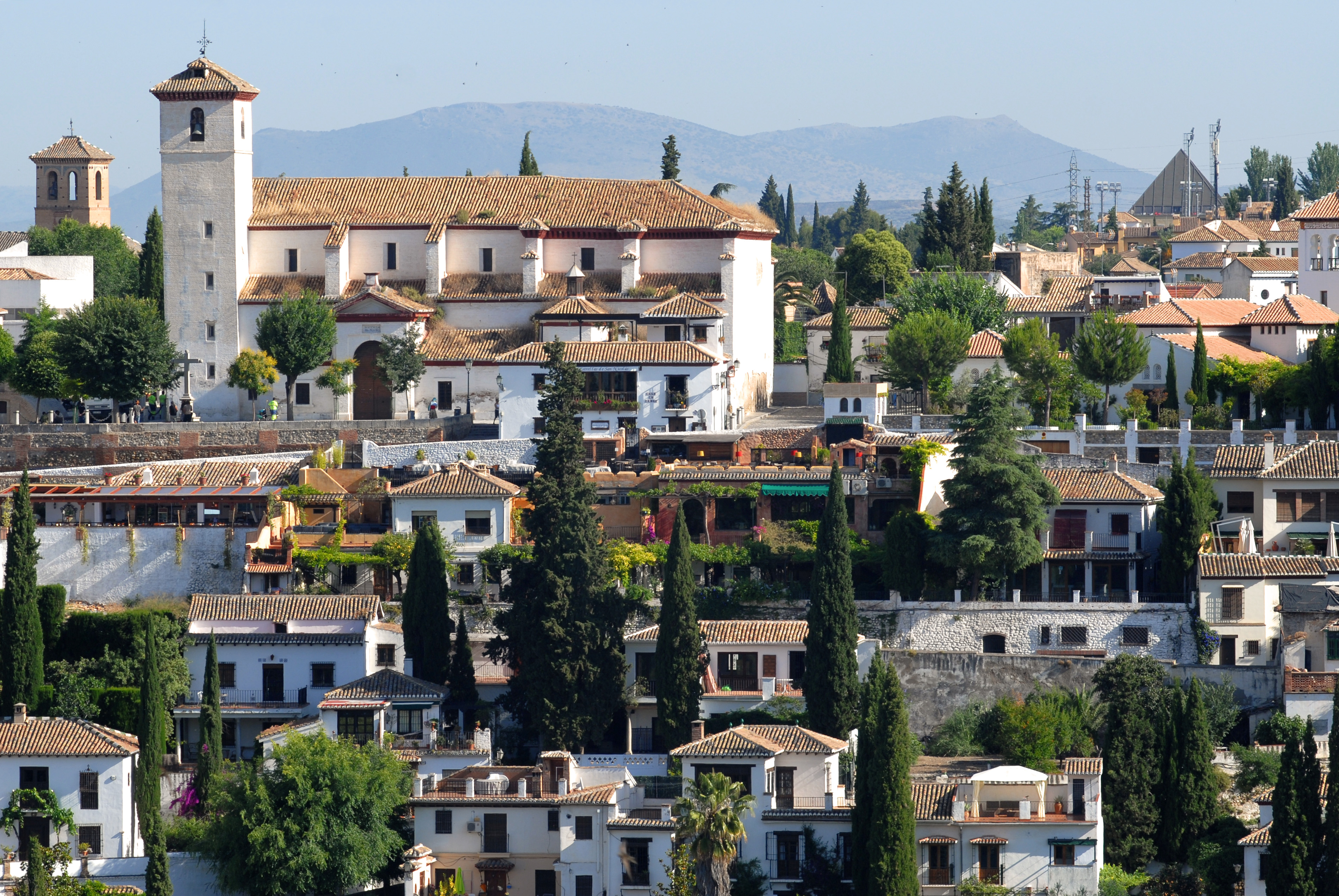 View of Albayzín from Alhambra palace in Granada